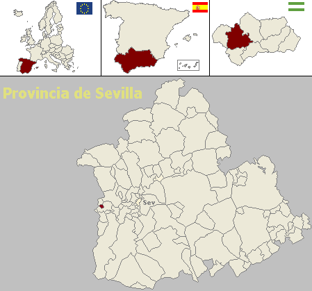 Carrión de los Céspedes